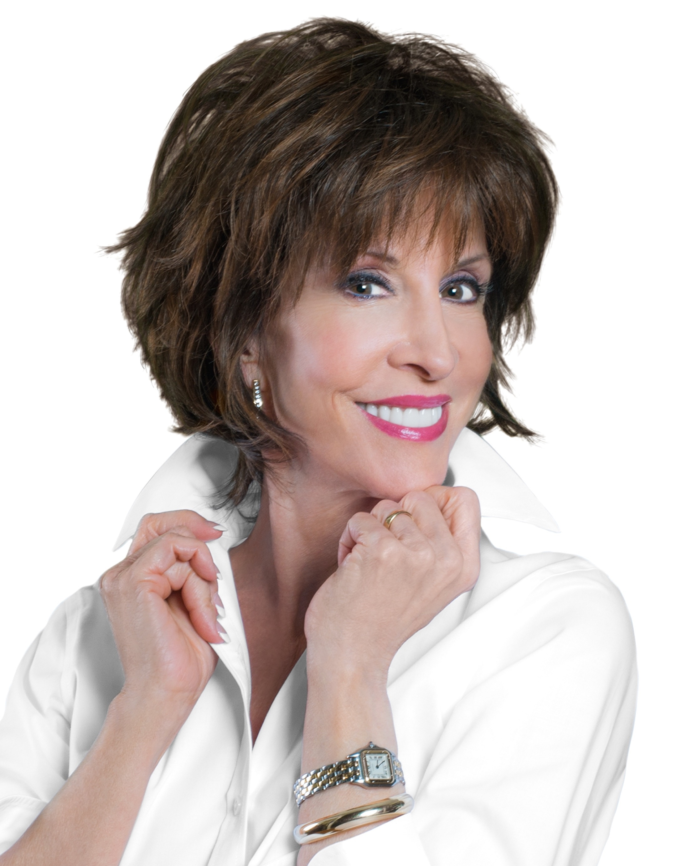 The official headshot of Deana Martin.